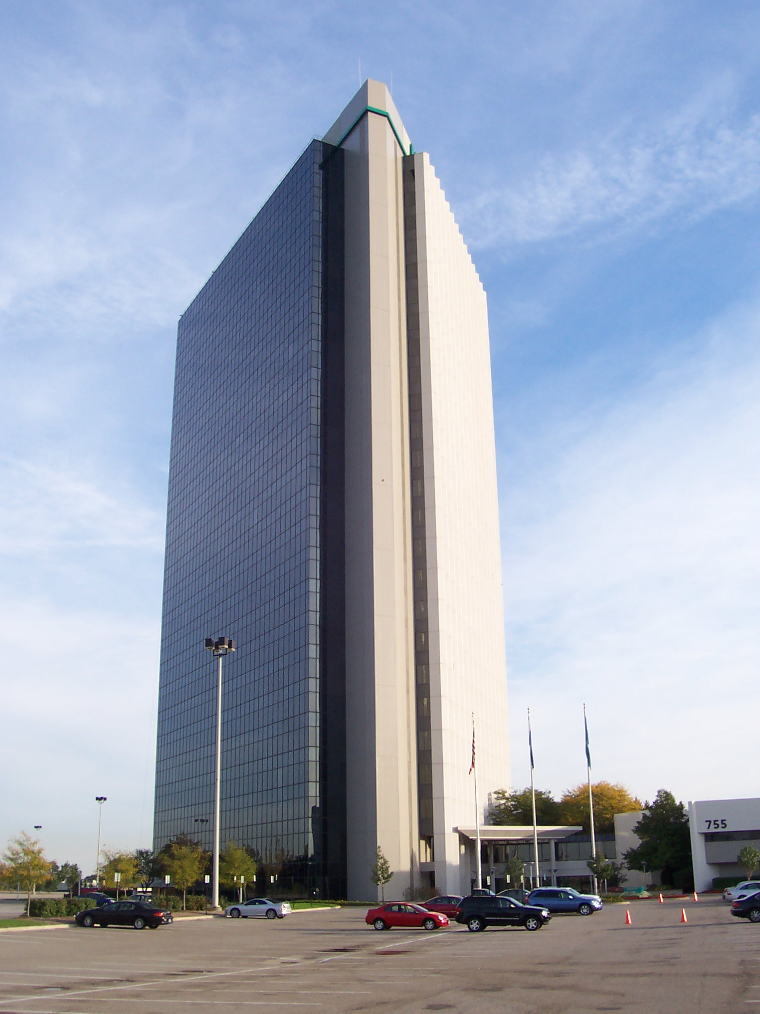 The National City Center (Top Of Troy) in troy Michigan. Sep 30 2007